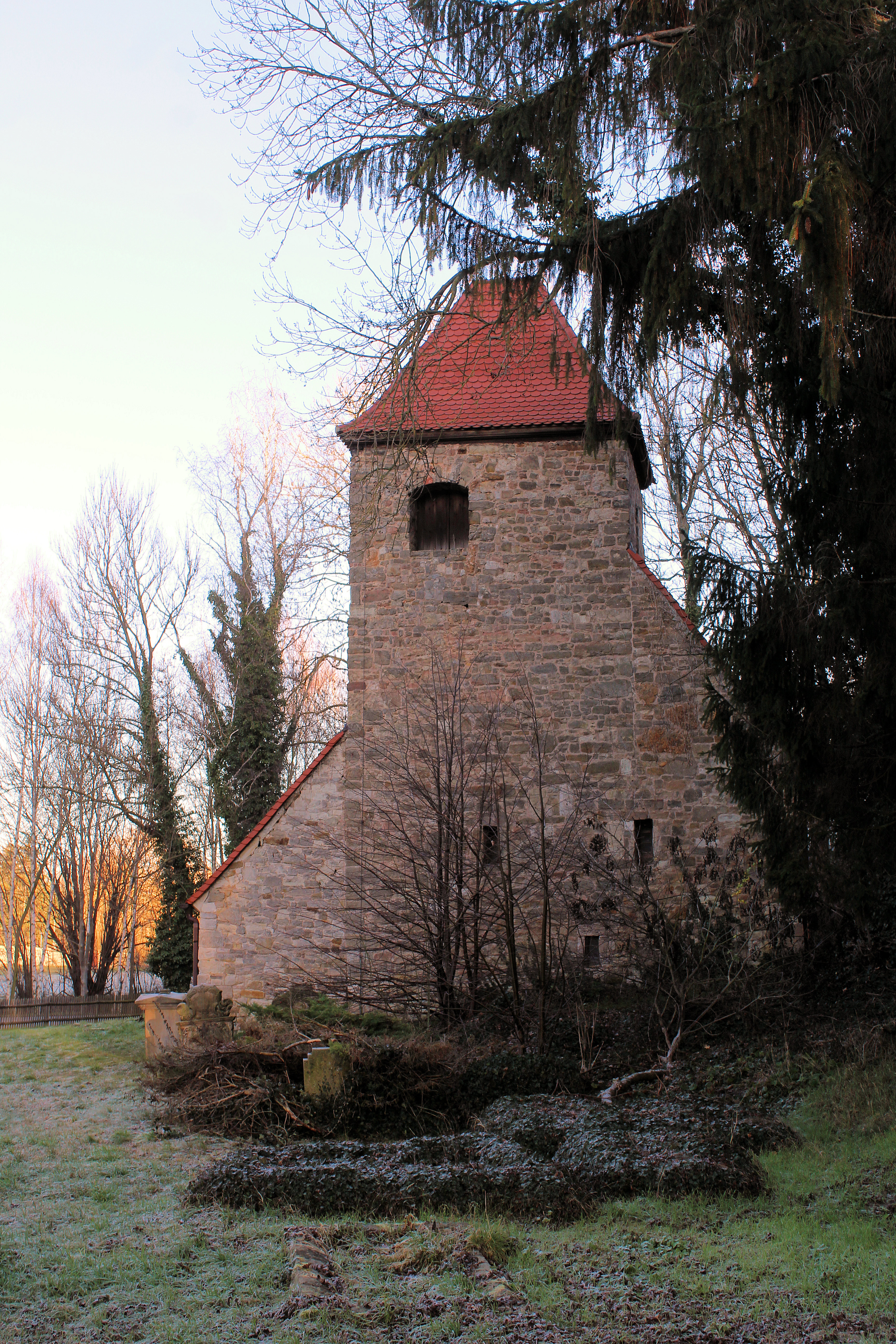 Freist (Gerbstedt), the church of the Elben district